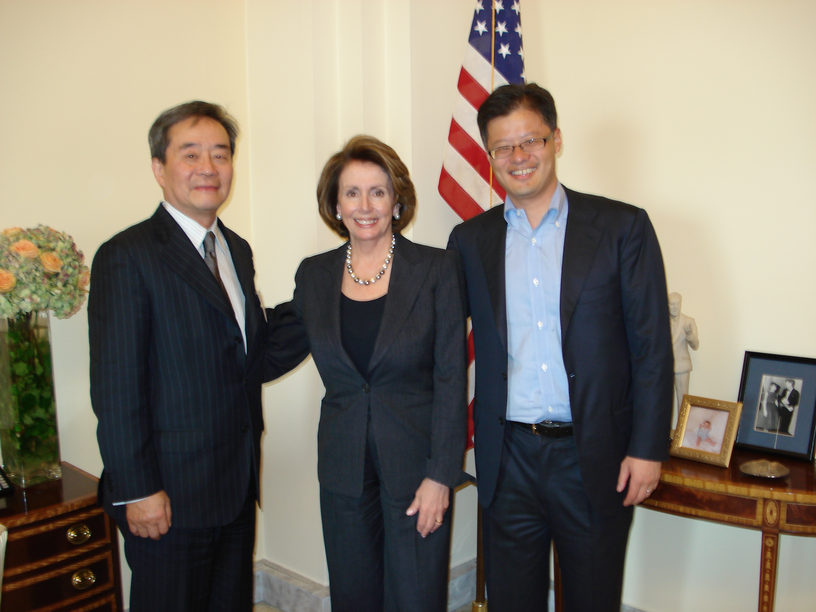 Chief Yahoo Jerry Yang (right) visits House Speaker Nancy Pelosi (middle) to urge support in seeking release of jailed Chinese dissidents. He was accompanied by human rights activitist Harry Wu (left), who is administering the Yahoo! Human Rights Fund. Read more here